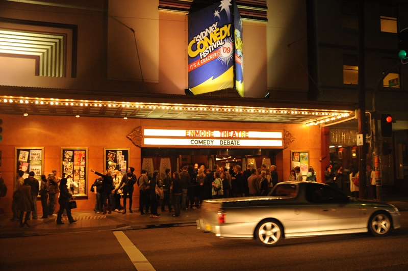 The Enmore Theatre in Enmore, Australia, where Sydney Comedy Festival events are held.